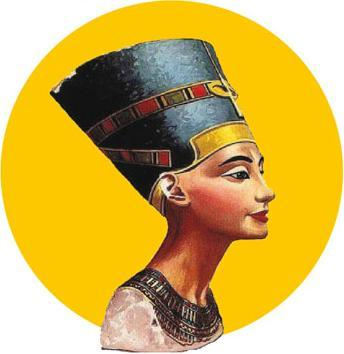 Coat of arms of Minya Govenorate